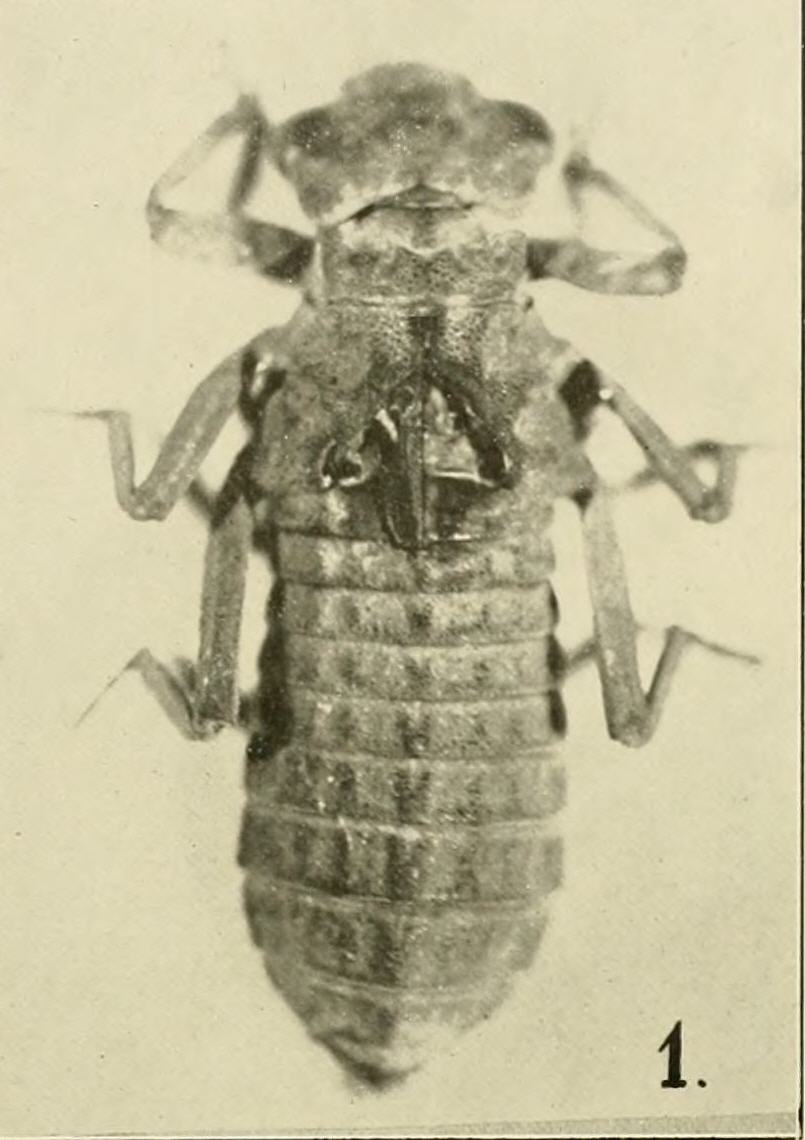 Larva of Epiophlebia laidlawi